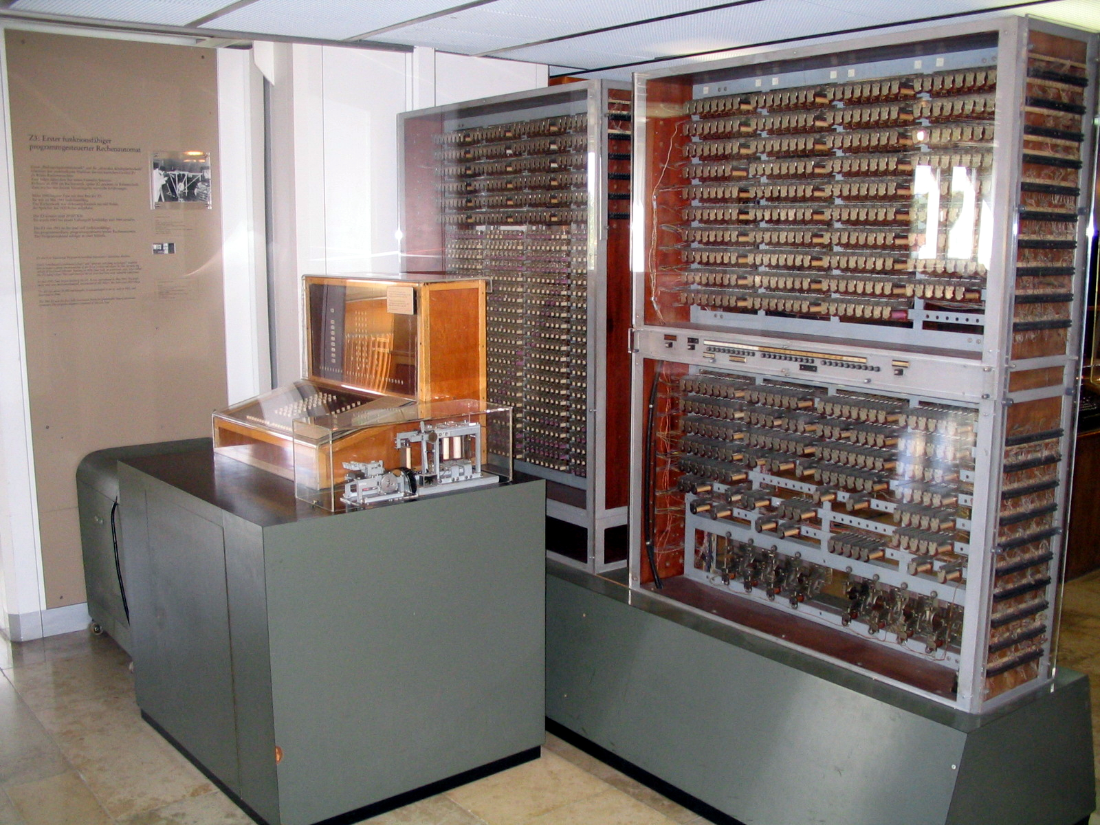 Replica of the Zuse Z3 in the Deutsches Museum in Munich, Germany